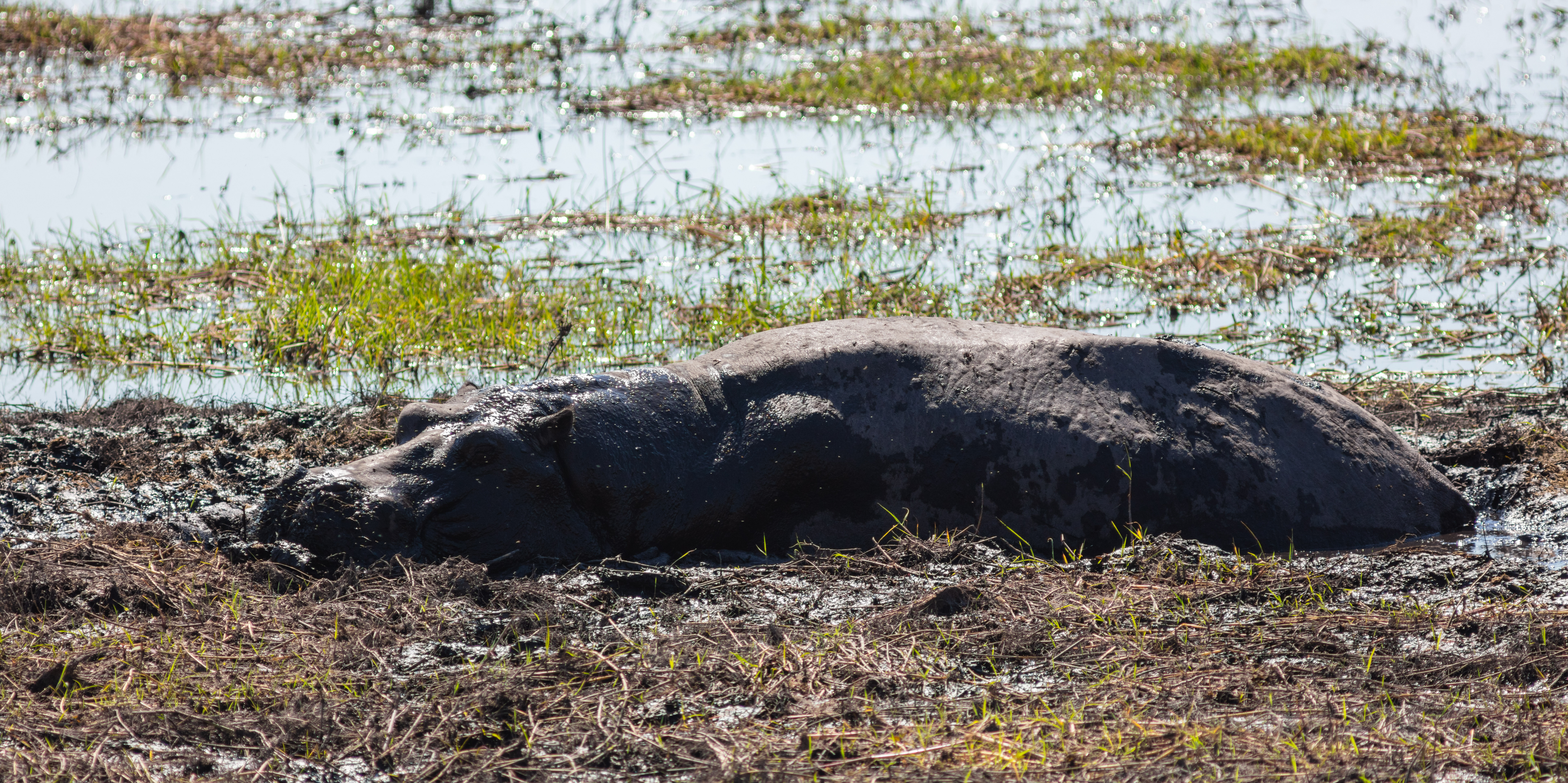 Hippo (Hippopotamus amphibius), Chobe National Park, Botswana